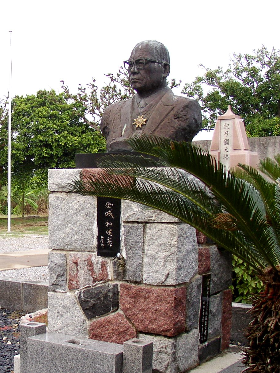 Bust of Washin Kinjō at Komesu, Itoman, Okinawa Prefecture, Japan